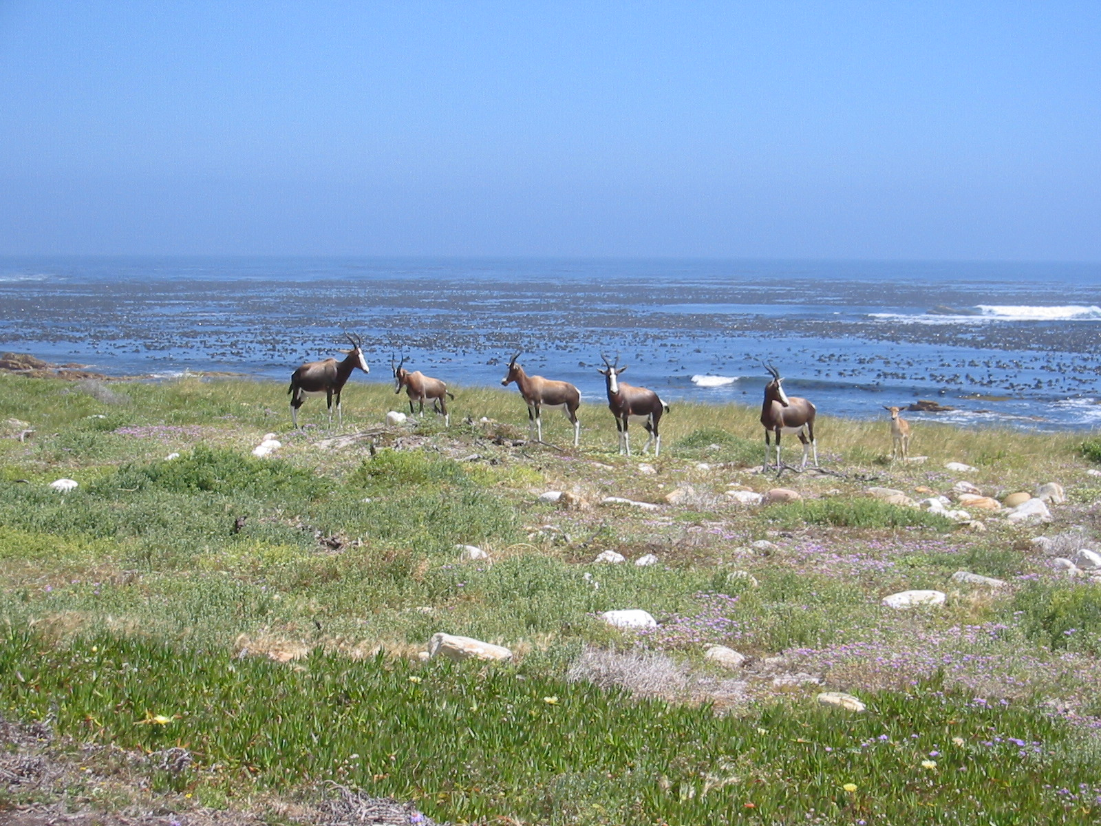 Bontebok: This is what a group of Bonteboks looks like standing by the sea. Did you notice the small one on the right? This picture was taken about 500 meters away from Cape of Good Hope. Eight species of antelope are found in the Cape Peninsula National park : Bontebok, Eland, Cape Grysbok, Red Hartebeest, Grey Rhebok, Steenbok and Grey Duiker. Klipspringer have been re-established recently after an absence of almost 70 years.